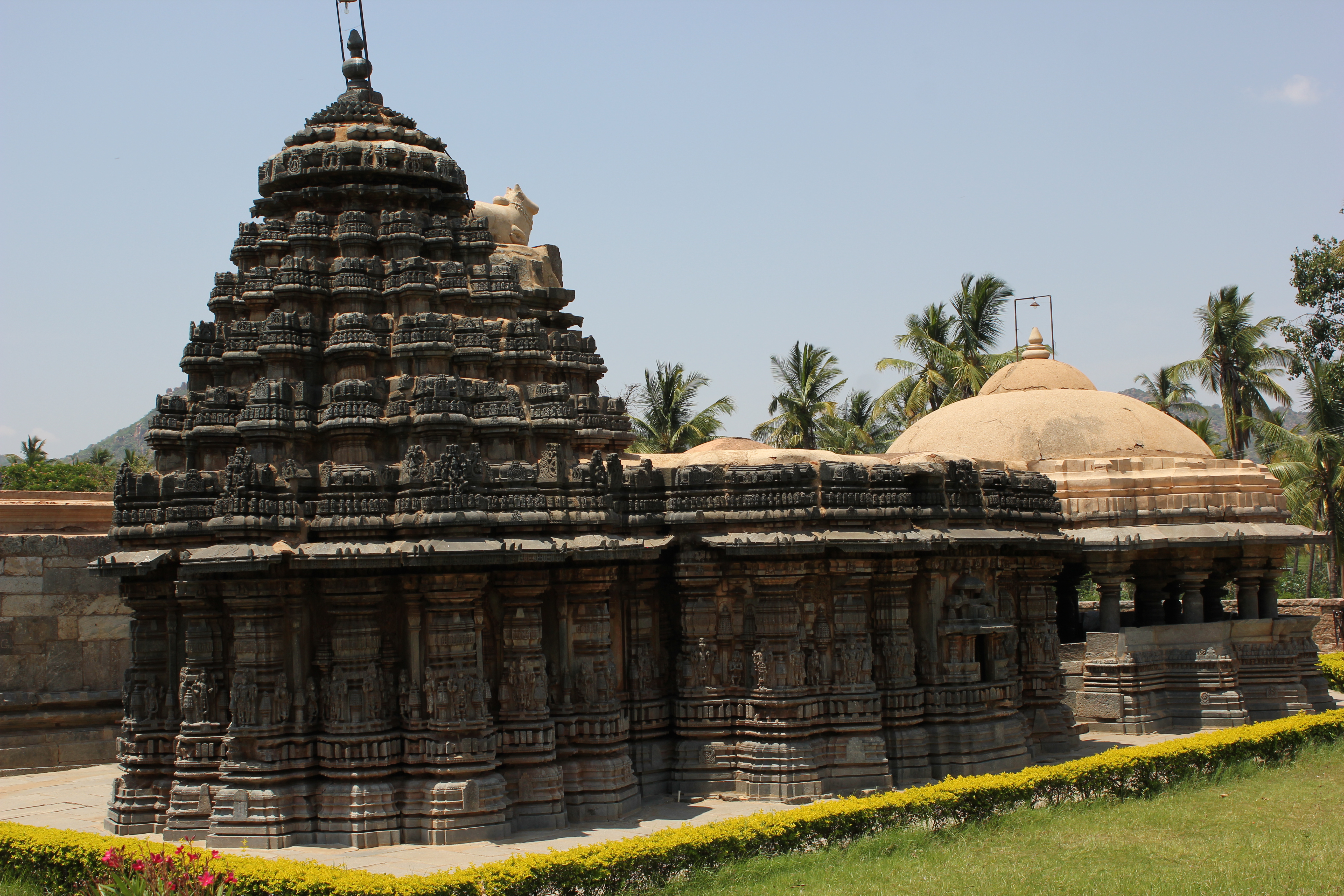 This photograph was taken by self (Dinesh Kannambadi) at the Ishvara temple (also spelt Isvara or Ishwara) in Arasikere, Hassan district, Karnataka state, India. The temple was built in 1220 AD during the rule of the Hoysala Empire King Veera Ballala II.